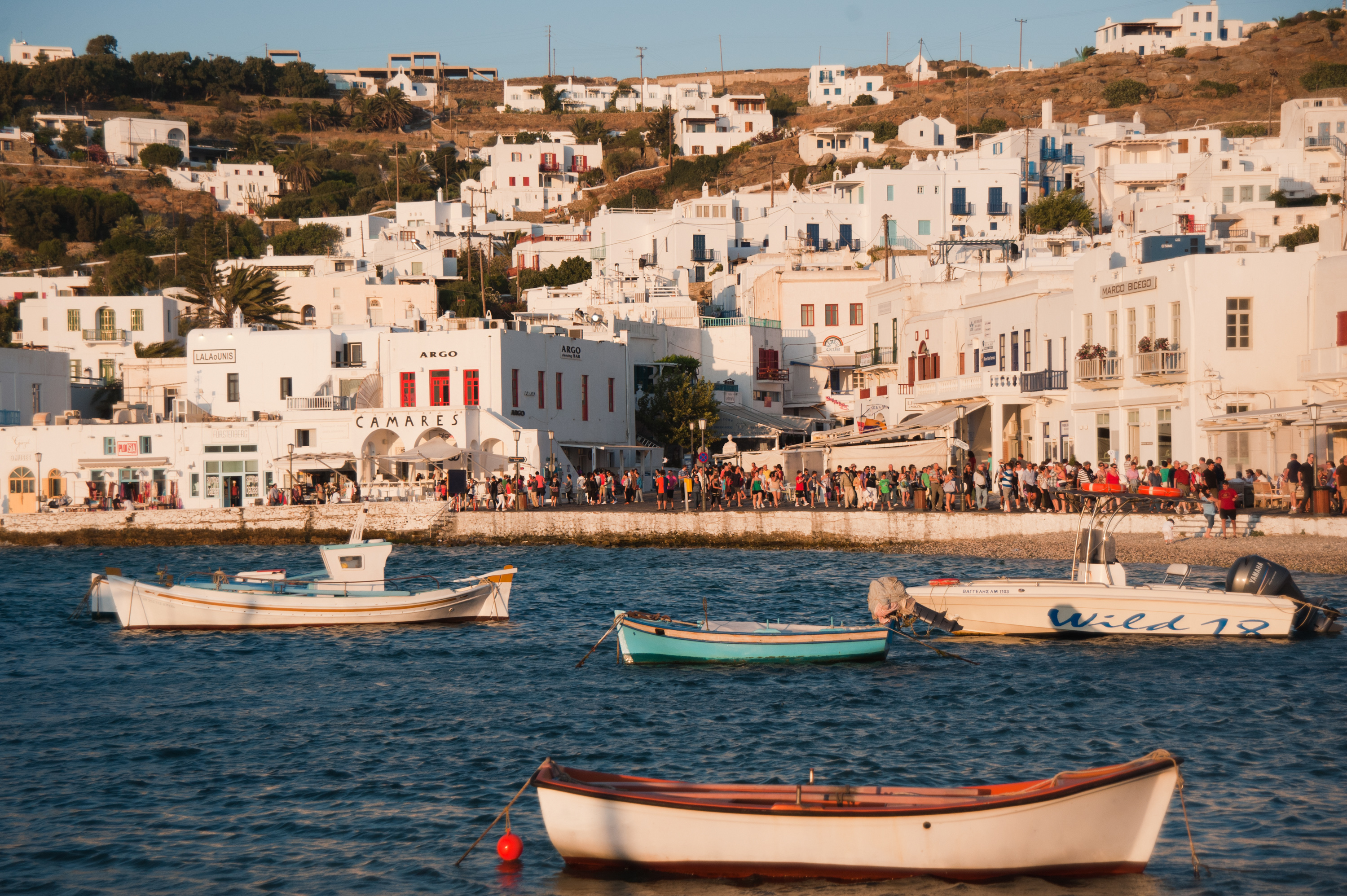 Coastline water boats against the cityscape of Mykonos island, Cyclades, Agean Sea, Greece.